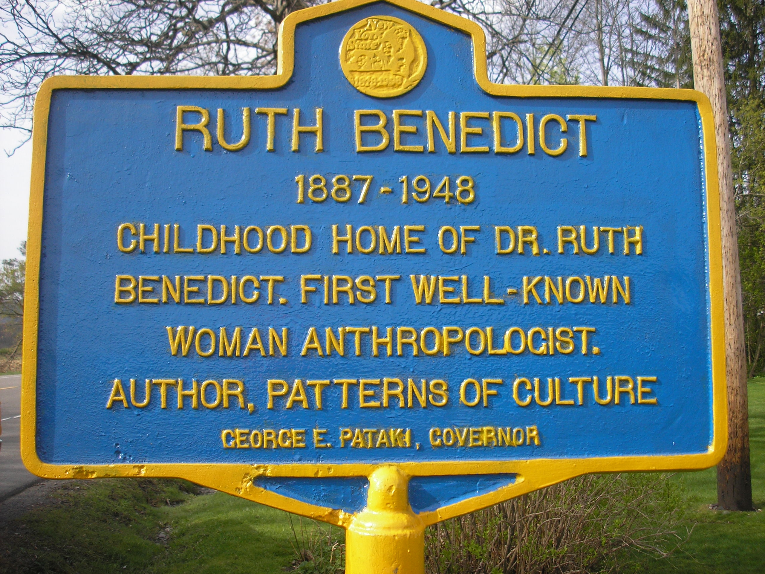 Historic marker of Ruth Benedict, 1887-1948, childhood home. She was a well known anthropologist and author of Patterns of Culture.